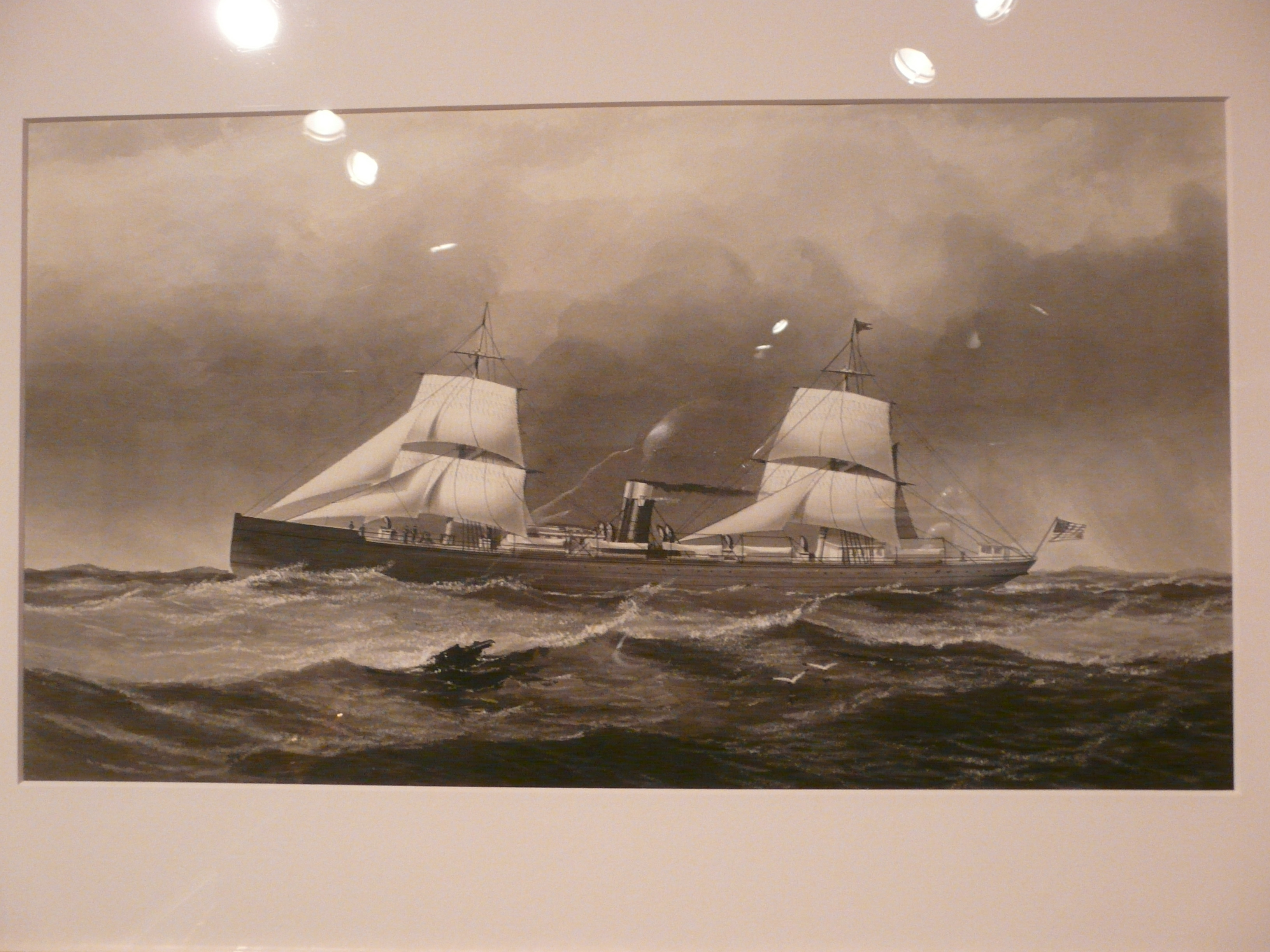 Steamship Pennsylvania. Gouache on paper. Independence Seaport Museum